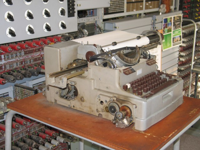 Colossus Computer, Bletchley Park. The Colossus machines were electronic computing devices used by British codebreakers to read encrypted German wireless messages during World War II. The original machine was designed during 1943-4 by a team led by Tommy Flowers at the Post Office Research Station at Dollis Hill - the machine's Post Office roots are plainly evident in the Strowger-type relays, uniselectors and equipment racks that were then much in evidence in the UK's automatic telephone exchanges. Colossus machines (eventually there were ten in all) were the world's first programmable, digital, electronic, computing devices. They used thermionic valves (vacuum tubes), the fastest switching devices then available, to perform calculations aimed at deciphering German wireless traffic that was encrypted using the Lorenz SZ40/42 machine. In the absence of magnetic disc or semi-conductor technology, encrypted messages were read by Colossus at high speed using punched paper tape for storage and an optical reader. Following the end of WWII., most of the machines were taken apart and their components recycled, but two survived at GCHQ Cheltenham where they were used for various purposes until 1960. The fully-functional replica of a Colossus Mark 2, shown here and now on display at the National Museum of Computing (in H Block) Bletchley Park, was reconstructed by a team under the direction of Tony Sale, and completed in November 2007. For more detailed information on Colossus, see . . . . This view is of a teleprinter-type keyboard and printer - rather different from the PC keyboards and laser-printers of today! For other views of Colossus, see: 1590849; 1590851; 1590854; 1590857; 1590865; 1590869; 1590871; 1590872; 1590874; 1590876; 1590877; 1590880 See also . . . . 1591001 and 1591006